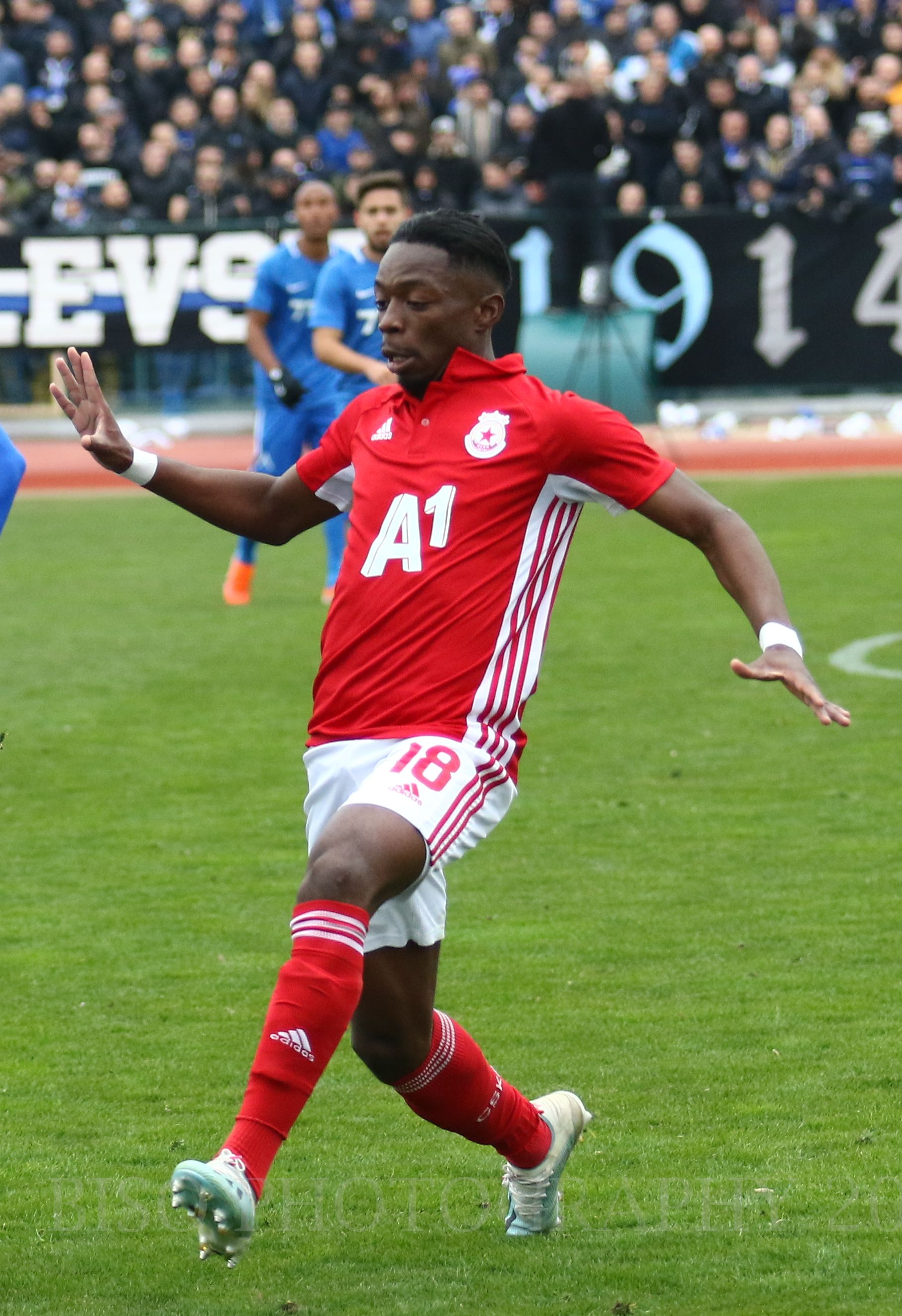 Bradley Mazikou (born 2 June 1996) is a French professional footballer who plays as a left-back for Bulgarian First League club CSKA Sofia.